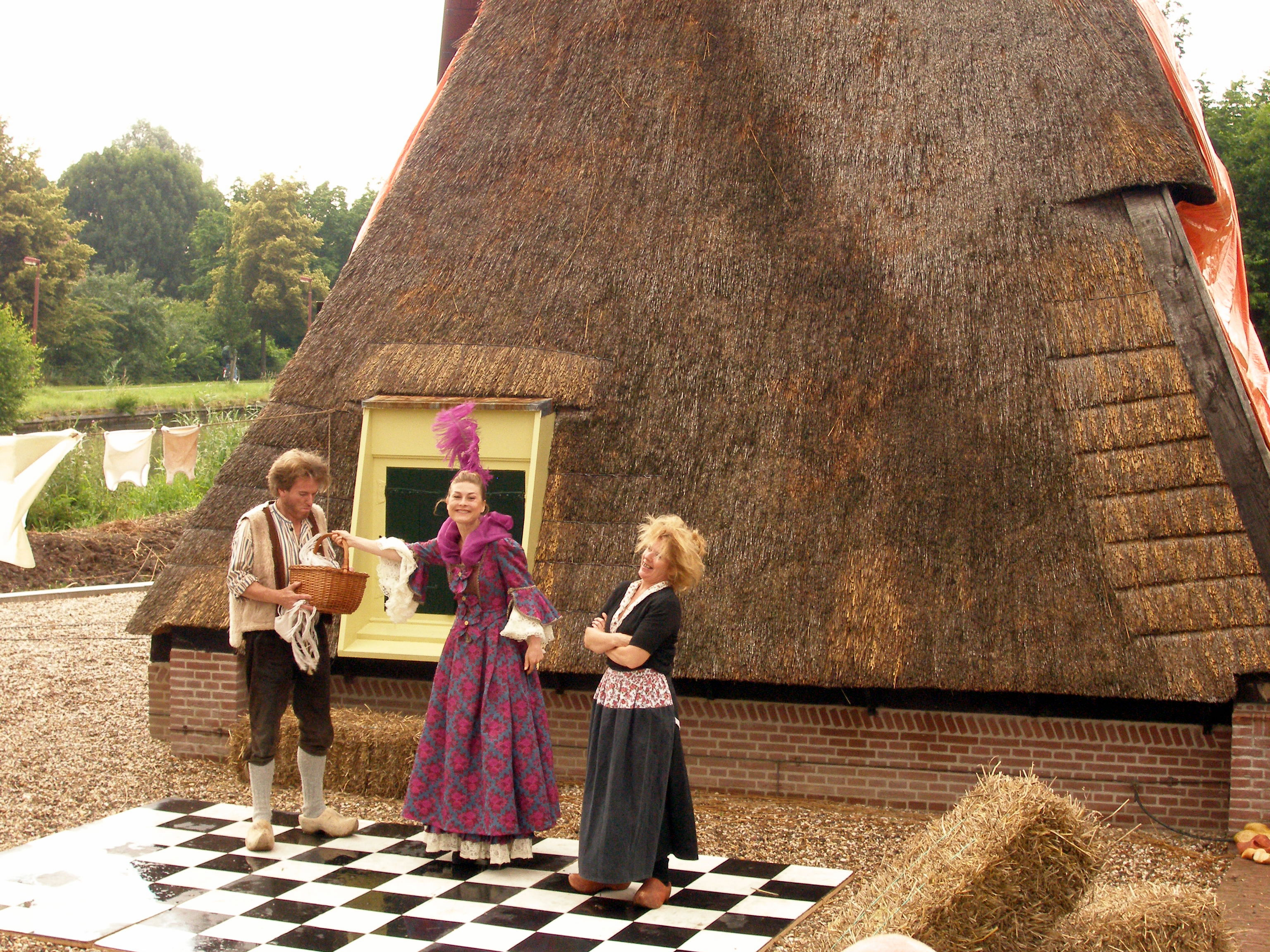 De klucht van de molenaar (Comedy of the miller) by Bredero, played by theater company De Kale. This was an open-air performance at the windmill in Nieuwegein (Molen van de Oudegeinse Polder).